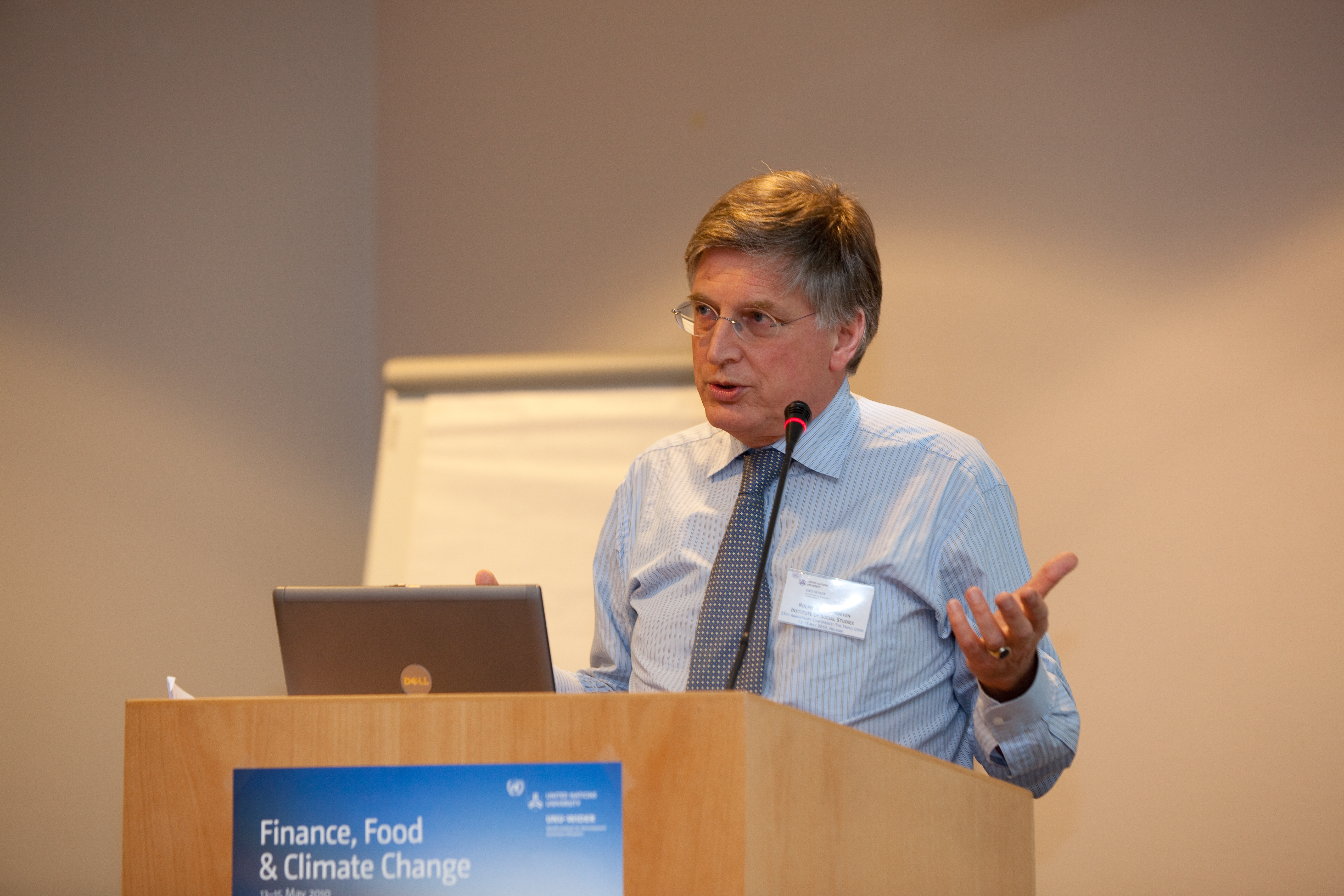 Rolph van der Hoeven, Professor, Institute of Social Studies ISS.